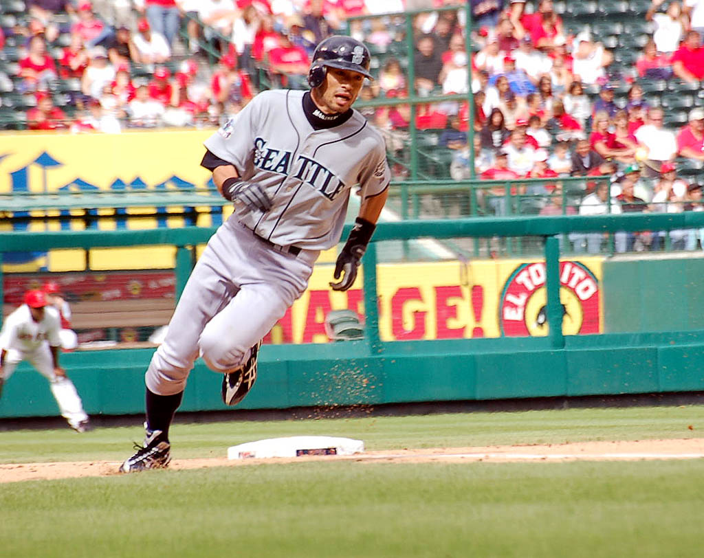 Suzuki Ichiro running on the field during the game vs. Los Angeles Angels.